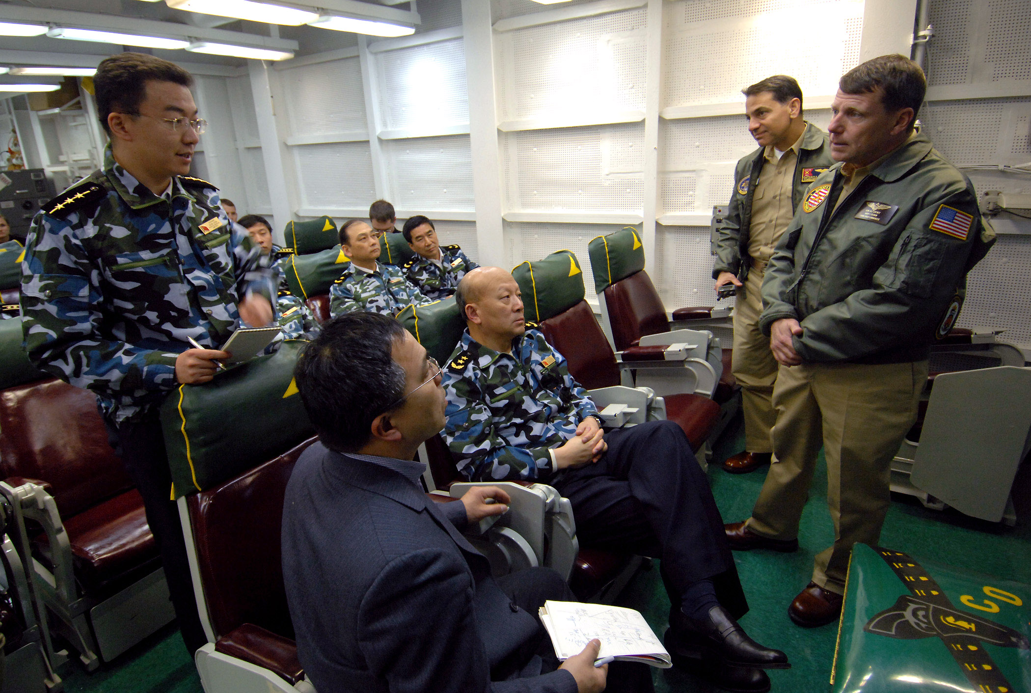 ATLANTIC OCEAN (April 6, 2007) - Commander, Carrier Strike Group (CSG) 10 Rear Adm. William Gortney fields a question from Chinese People's Liberation Army Navy (PLAN) Lt. Sun Jian after a carrier-based aviation briefing in Strike Fighter Squadron (VFA) 105's ready room aboard the Nimitz-class aircraft carrier USS Harry S. Truman (CVN 75). Truman is underway conducting Tailored Ship's Training Availability (TSTA). TSTA is a standard used to evaluate a ship's readiness for deployment. U.S. Navy photo by Mass Communication Specialist 3rd Class Kristopher Wilson (RELEASED)